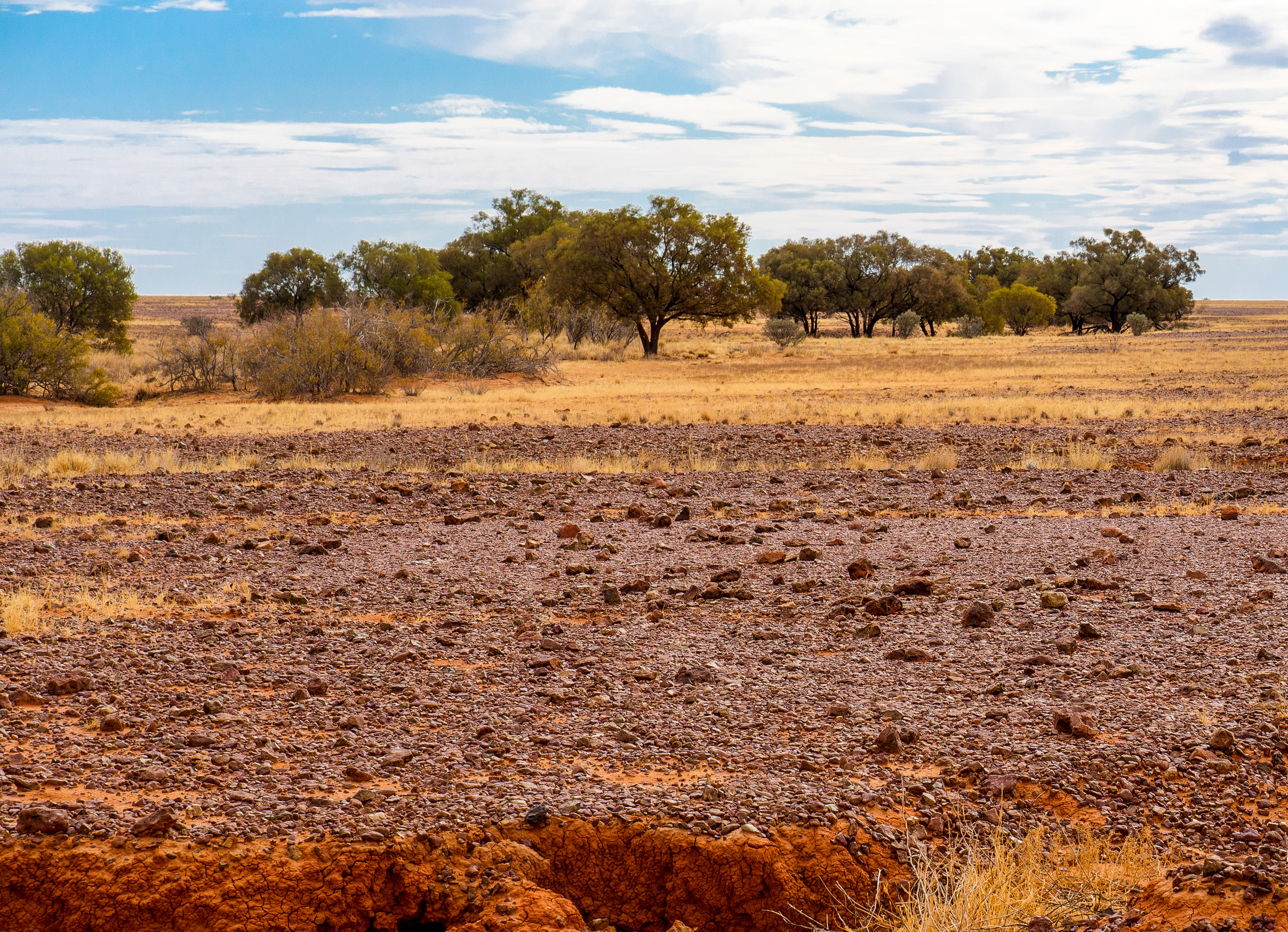 Notice how the stones have risen and there are no stones deeper in the soil profile (zoom in to the foreground)